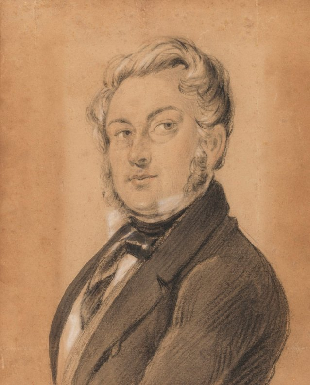 Self-portrait by Charles Rodius, pastel, ink wash on paper, 29.3 x 24 cm.